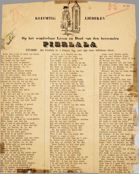 Song sheet (music sheet) with the folk song 'Komt hier al bij en hoort een klucht / Het is van Pierlala'. Not dated; printed around 1900. Source: Lbl KB Wouters 11131, Wouters/Moormann, Meertens Instituut, Amsterdam. Online source: Het Geheugen van Nederland (